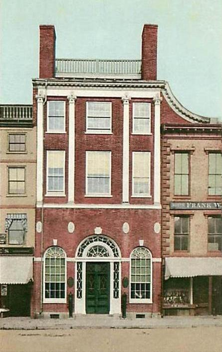 The Portsmouth Athenæum, Portsmouth, New Hampshire. Designed by Bradbury Johnson, it was built in 1805 for the New Hampshire Fire & Marine Insurance Company, then acquired in 1823 by Portsmouth's Athenæum Society.